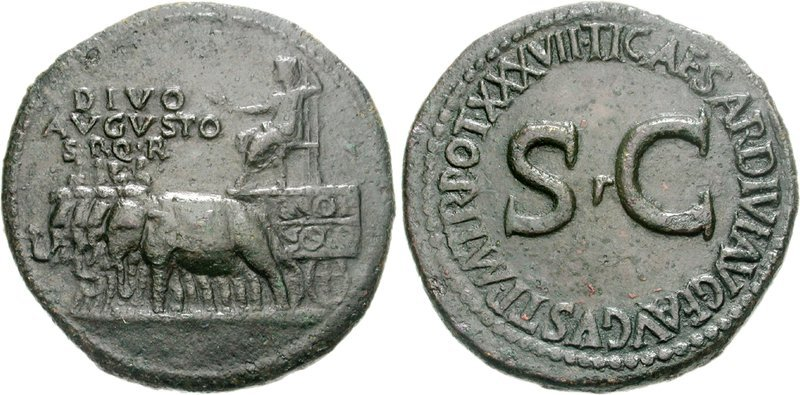 Divus Augustus. Died AD 14. Æ Sestertius (27.84 g, 12h). Rome mint. Struck under Tiberius, AD 35-36. DIVO/AVGVSTO/S • P • Q • R in three lines in left field, Augustus seated left on throne, holding laurel branch in right hand and scepter in left hand, set on ornate triumphal car drawn by four elephants; each elephant has its own mahout on its neck TI • CAESAR • DIVI • AVG • F • AVGVST • P • M • TR • POT • XXXVII, large S • C.